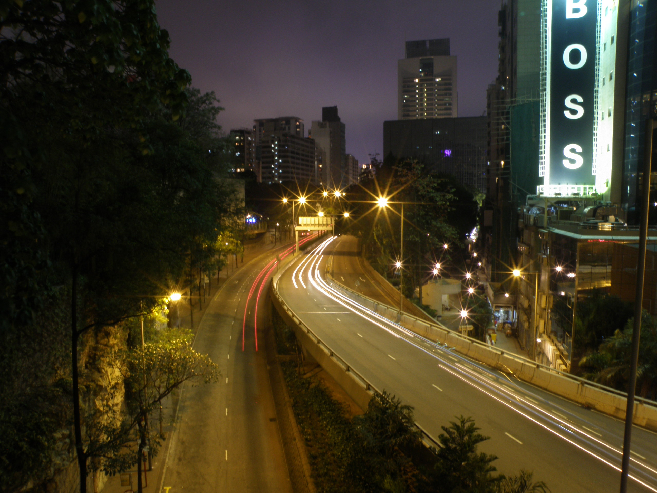 Kowloon Park Drive in Tsim Sha Tsui, Hong Kong.